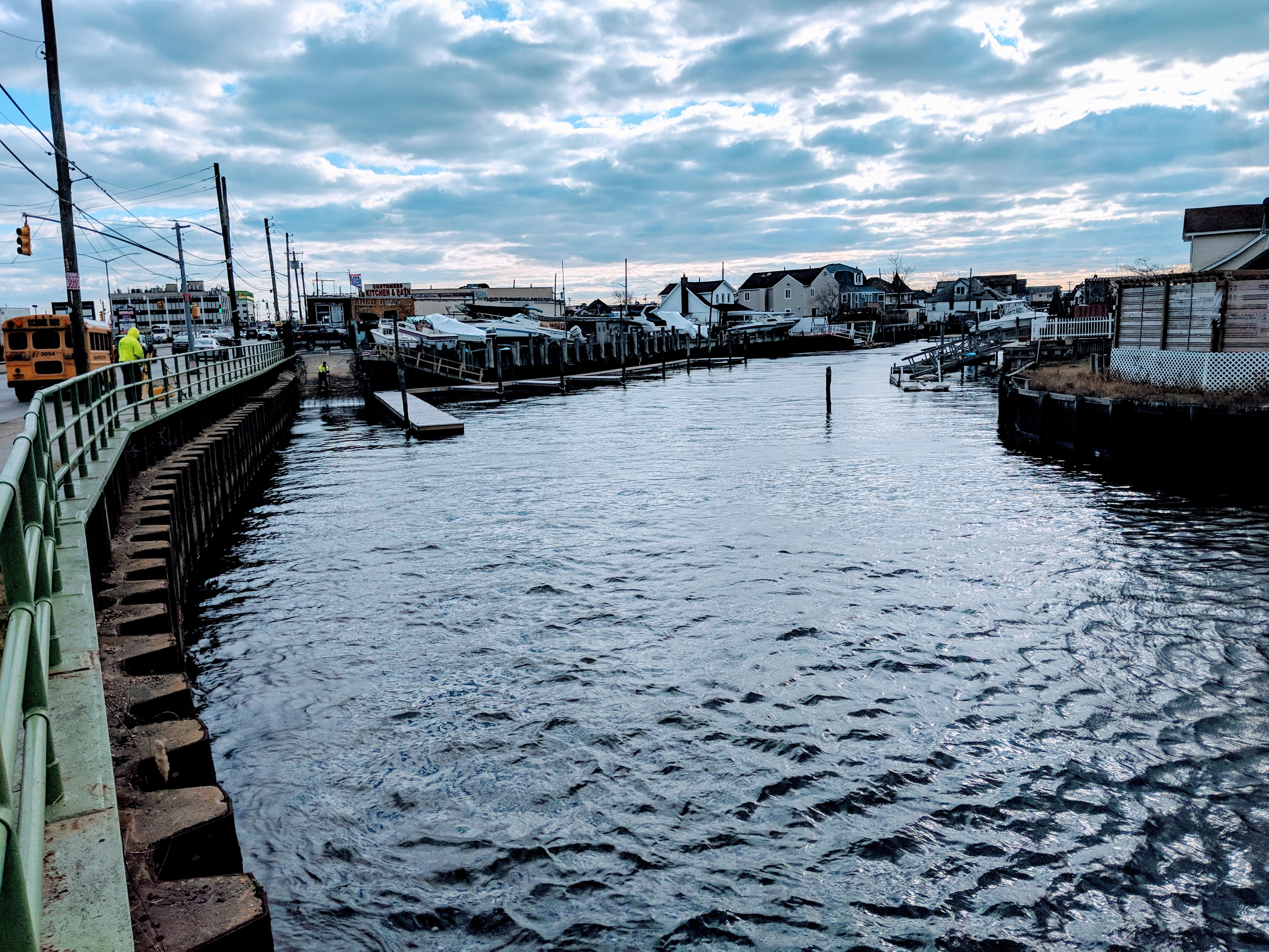 Hook Creek with Meadowmere boat ramp